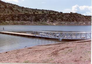 A view of the floating dock at Lyman Reservoir in Arizona